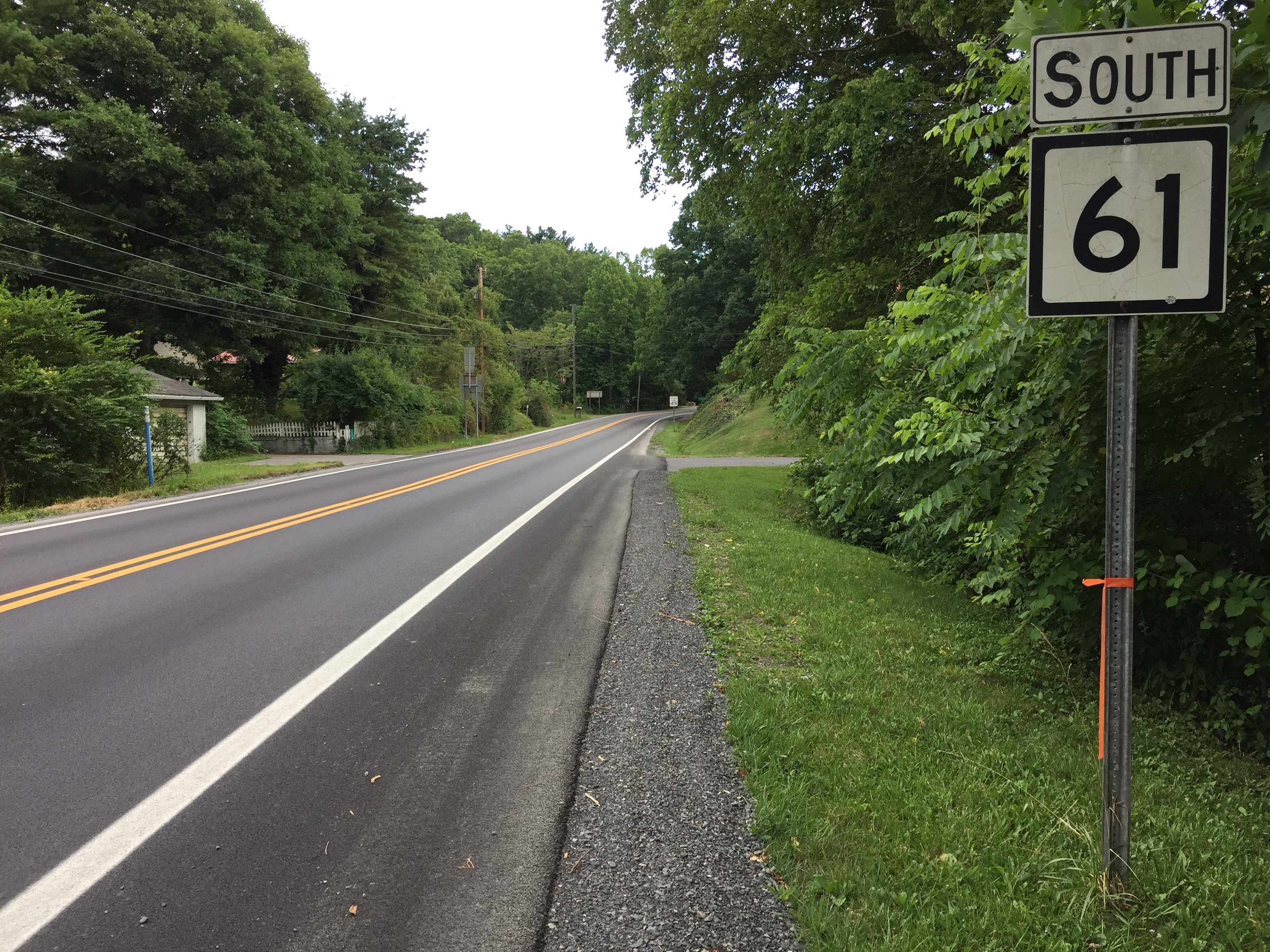 View south along West Virginia State Route 61 (Mount Hope Road) at West Virginia State Route 16 in MacDonald, Fayette County, West Virginia